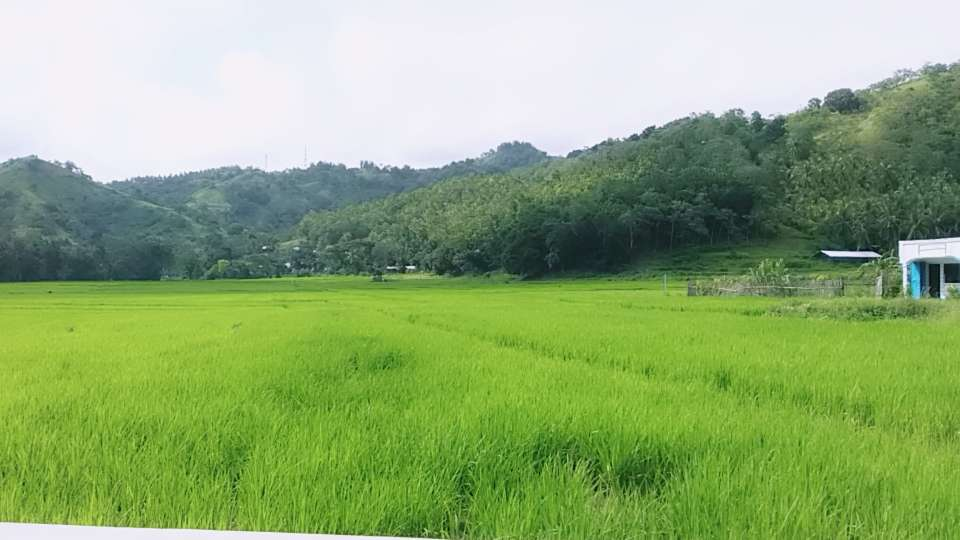 Bayawan Ricefields